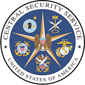 The Central Security Services Logo